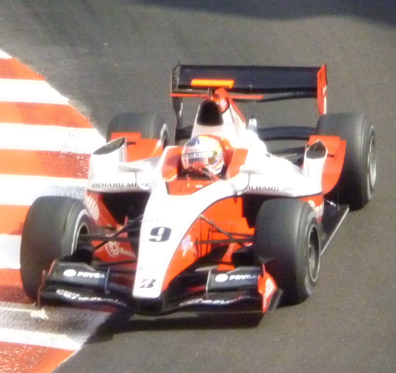 Pastor Maldonado driving for ART Grand Prix at the Monaco round of the 2009 GP2 Series season.